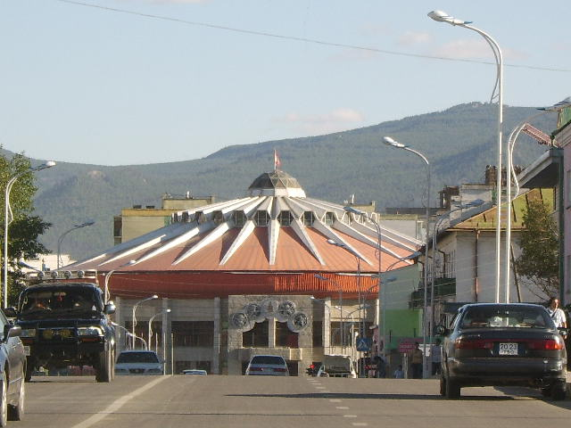 Urguu of Wrestling in Ulaanbaatar. Photographer Gantuya